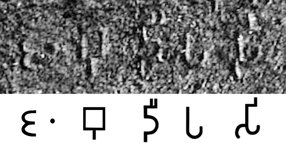 Jambudiipasi inscription for "India" of the Sahasram Edict of Ashoka, circa 250 BCE [1]